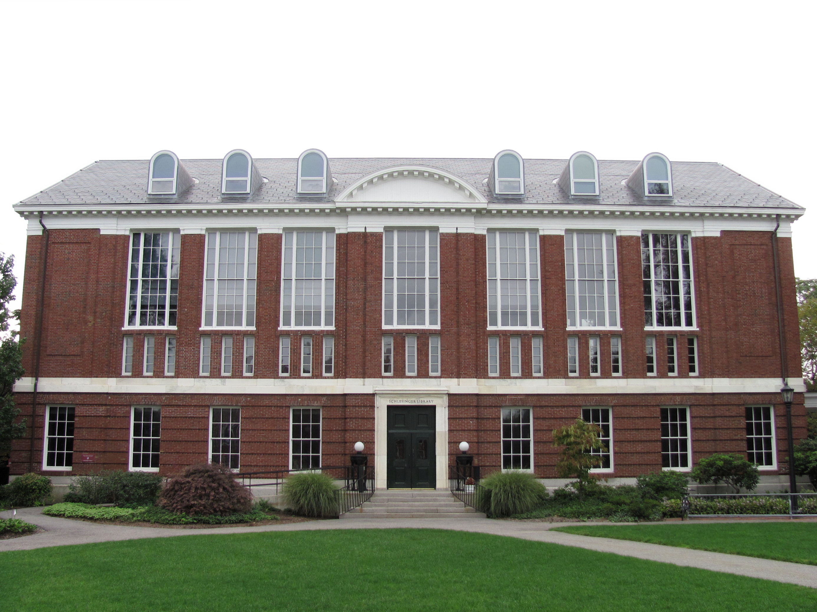 Schlesinger Library, Radcliffe Institute for Advanced Study, Cambridge Massachusetts